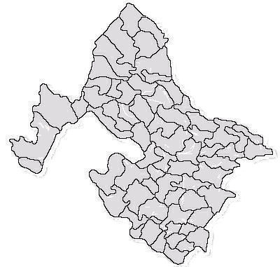 Location map of Mehedinți County, Romania